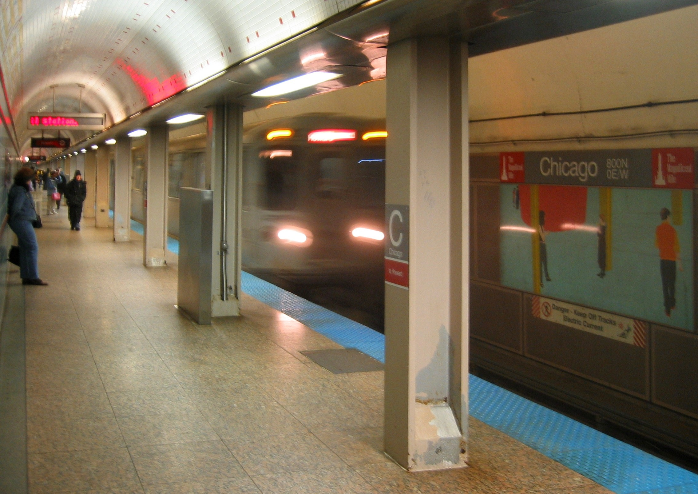 Chicago Station on the CTA Red Line, Chicago, Illinois.